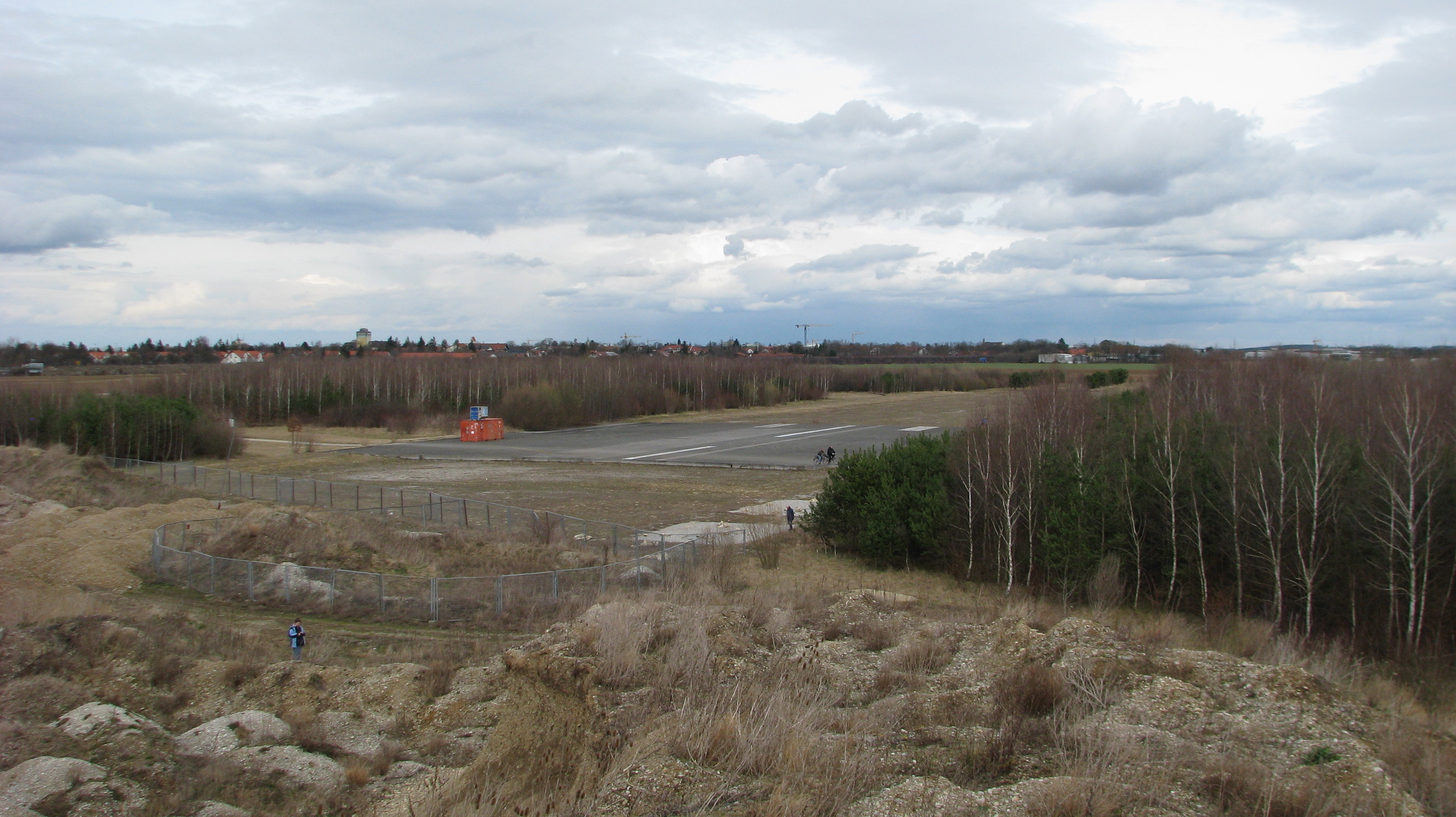 Remainder of the old Munich airport Riem - part of the runway - Picture from 2010